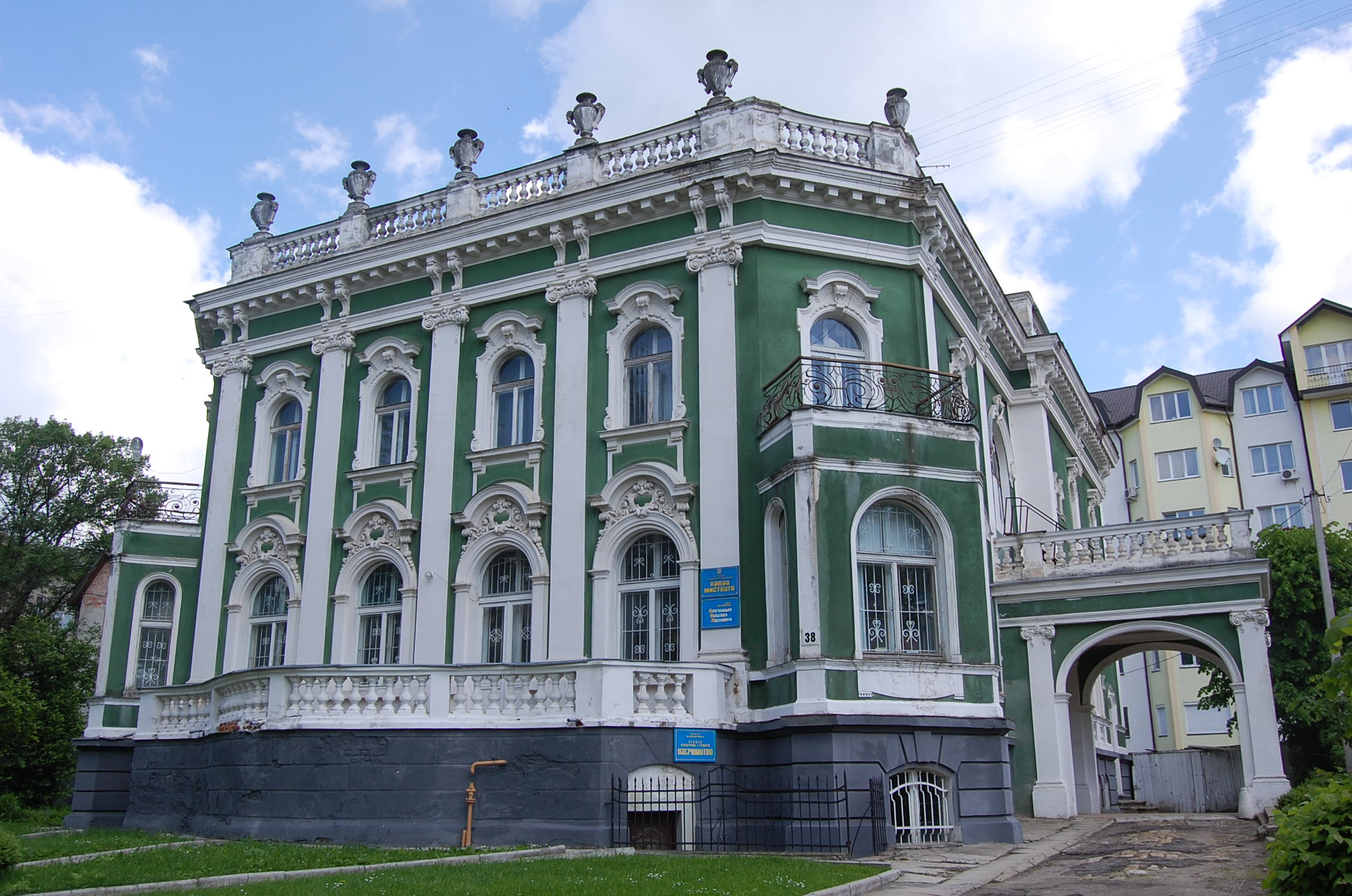 Villa of Bianka, Mickiewicza st. (now Art Palace, Drohobyczyna Museum in Drohobycz, Ukraine